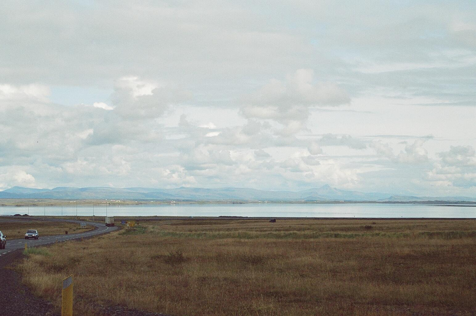 Borgarfjörður in Iceland, GNU FDL I took the photo by my-self in autumn 2004, no other copyrights involved.